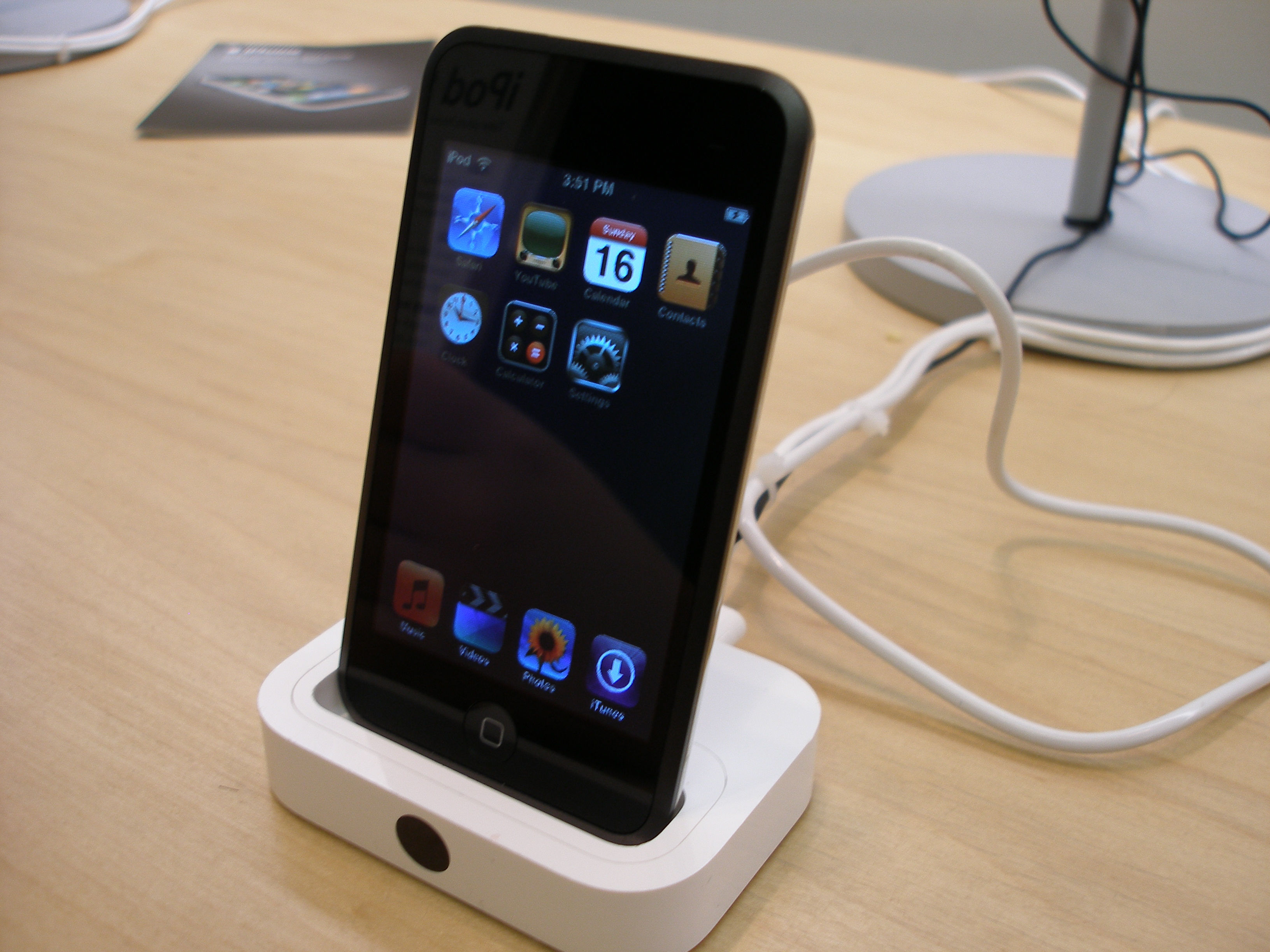 An iPod touch display unit at my local Apple Store.